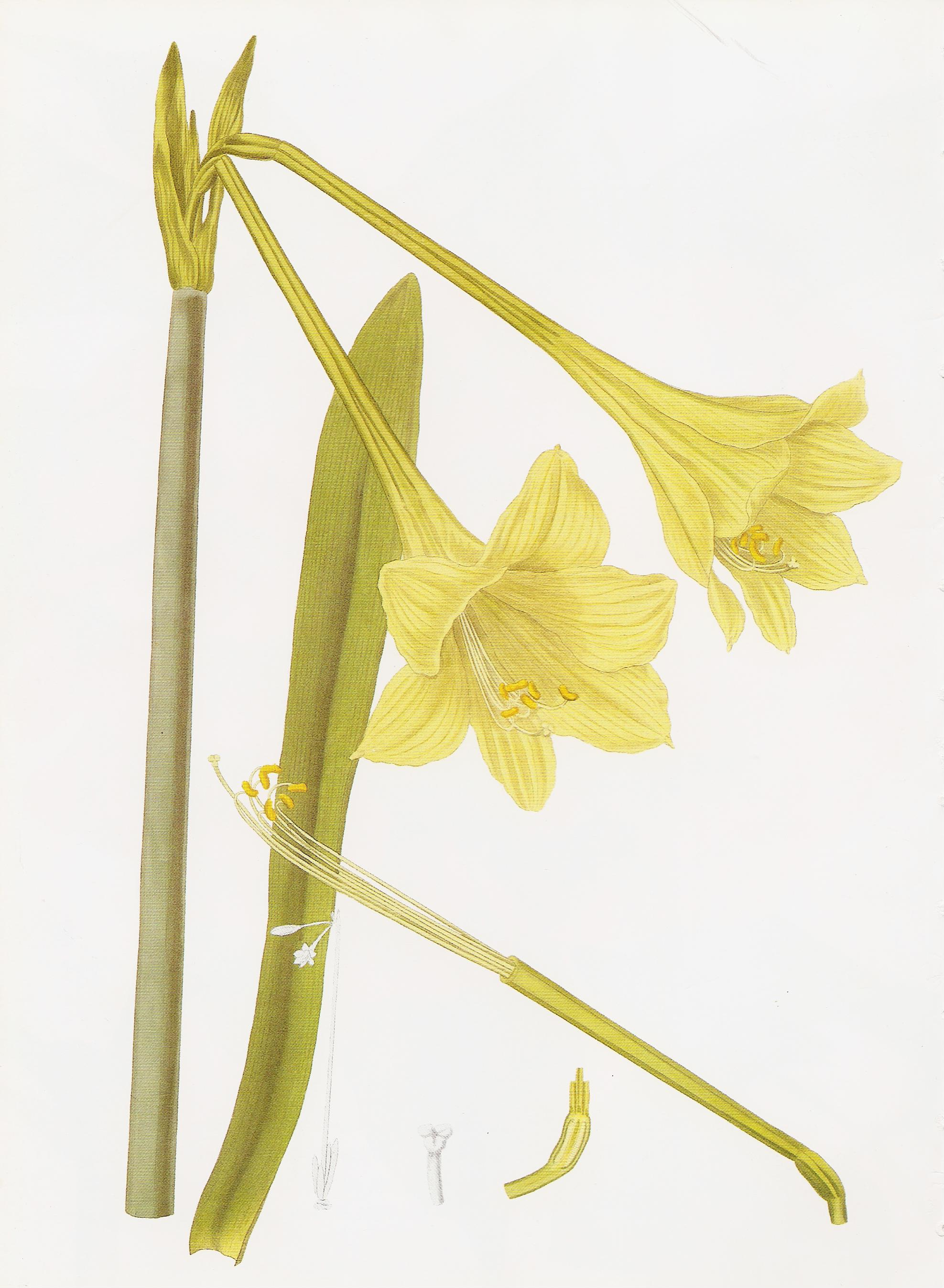 Amaryllis solandraeflora (now Hippeastrum solandraeflorum), a hand-coloured engraving from John Lindley's Collectanea botanica (1821), of a plant both named and drawn by Lindley (from William Cattley's specimen)